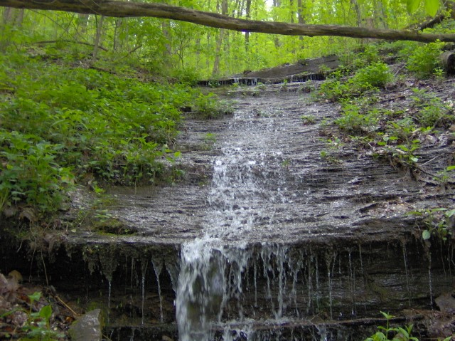 A small stream trickling over an outcropping of sandstone along the north slopes of Old Mac Mountain at Frozen Head State Park in the Cumberland Mountains of Tennessee, USA. Formations like this are common along Old Mac Mountain and Bird Mountain.